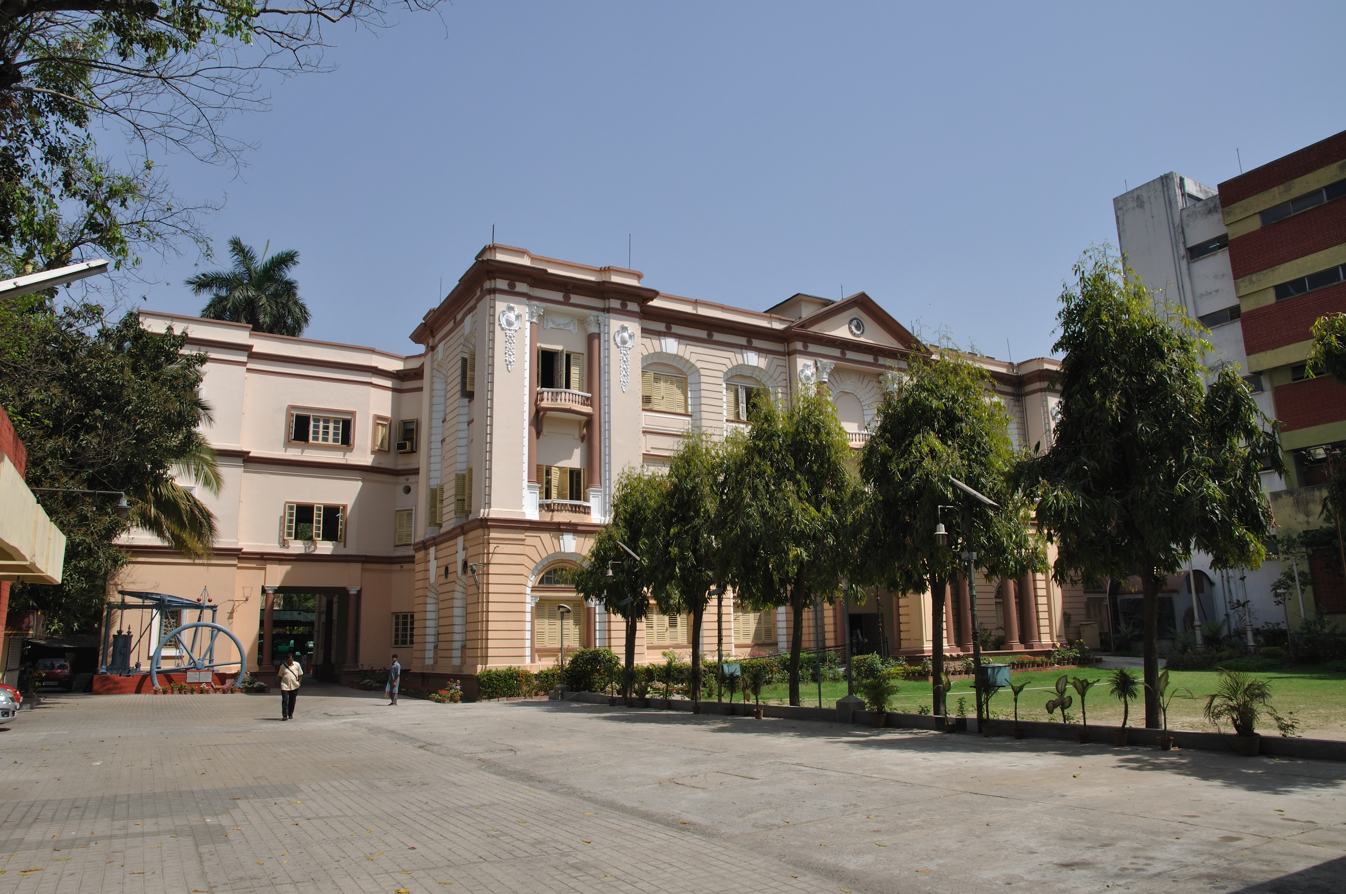 Birla Industrial and Technological Museum. 19A, Gurusaday Road, Kolkata - 700019, of National Council of Science Museums under Ministry of Culture, Government of India. The first Scientific and Industrial Museum in India.